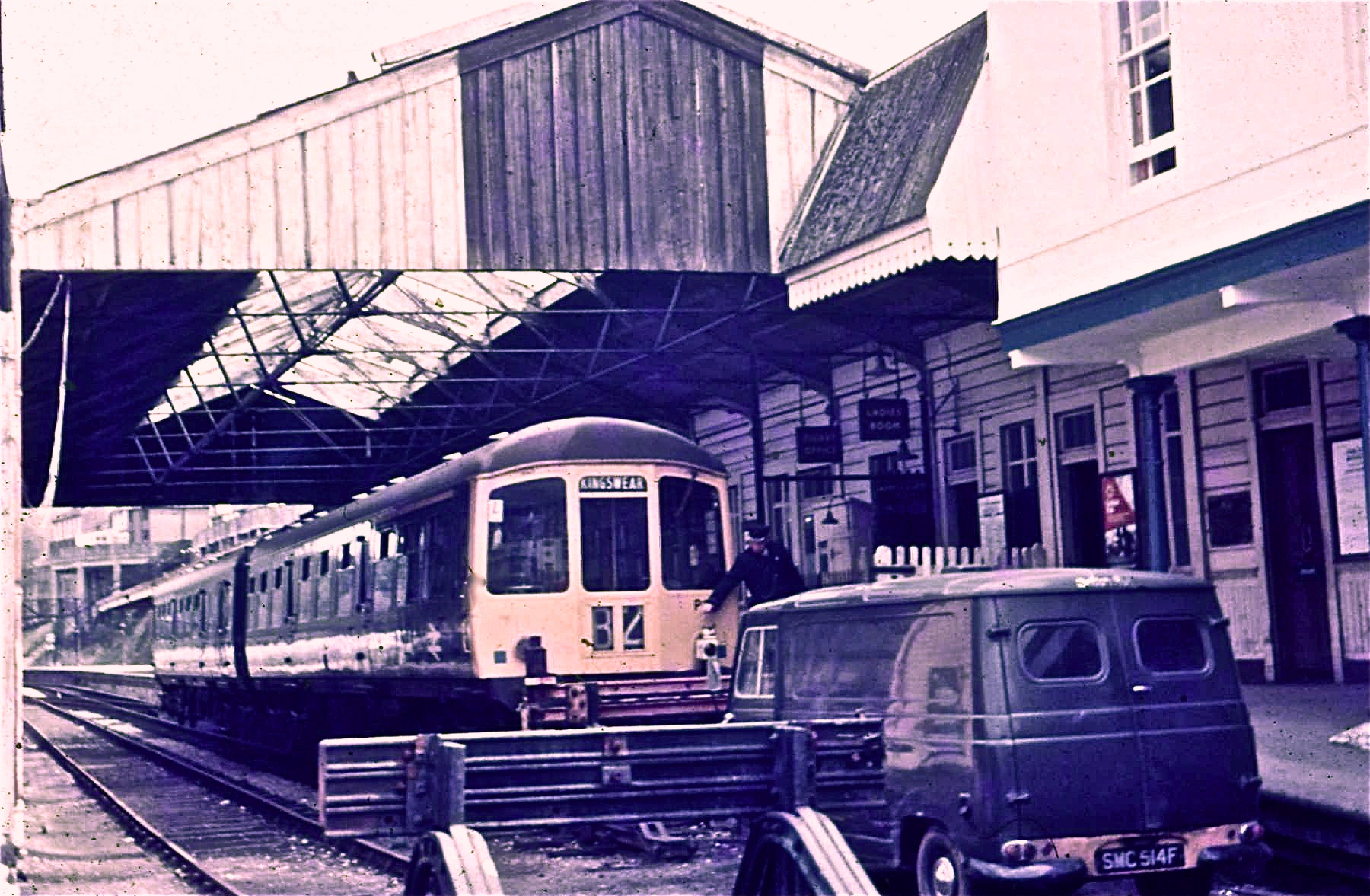 The rear oil lamp being placed on a Class 103 at Kingswear station.